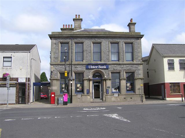 Ulster Bank, Maghera. It is in the centre of the town